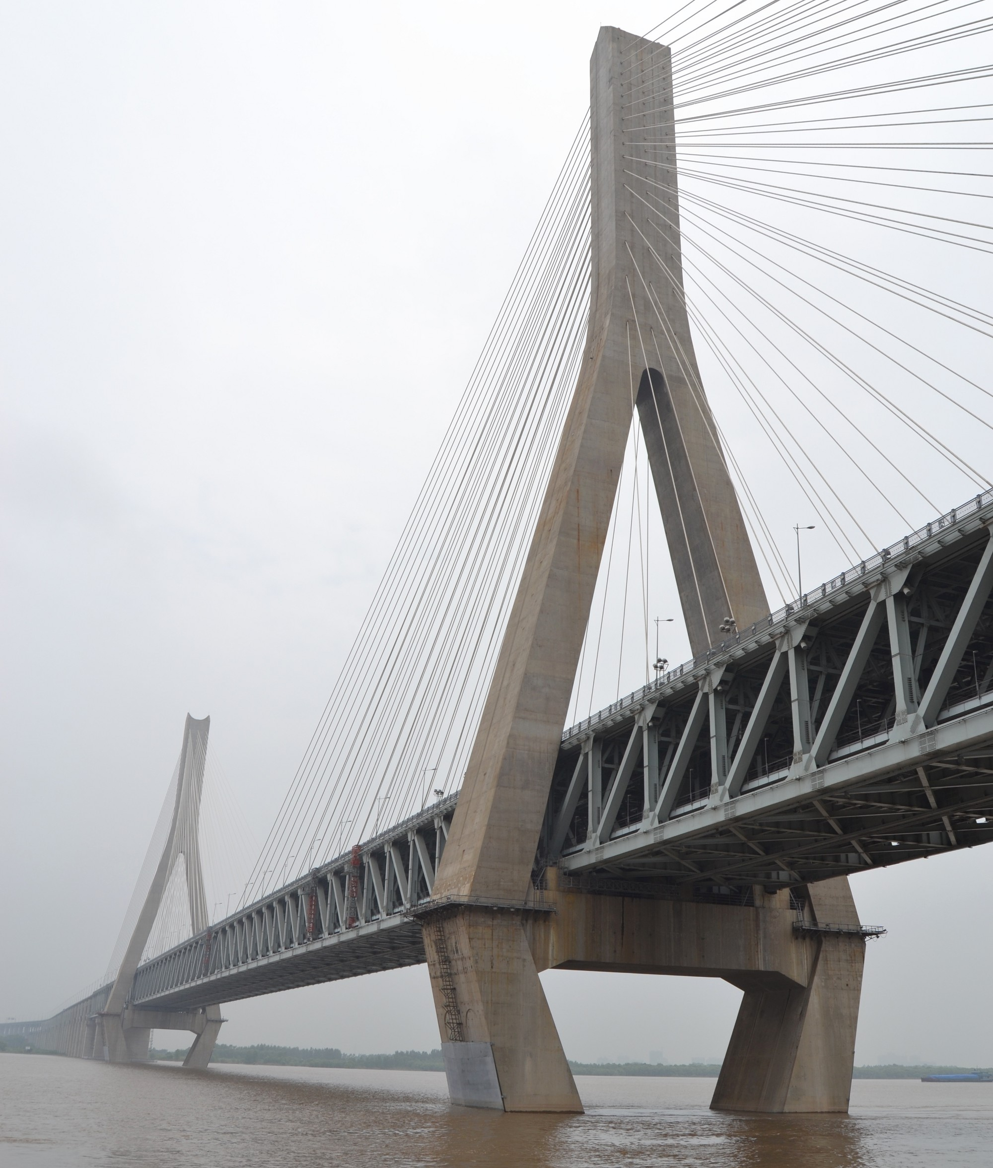 The Tianxingzhou Yangtze River Bridge